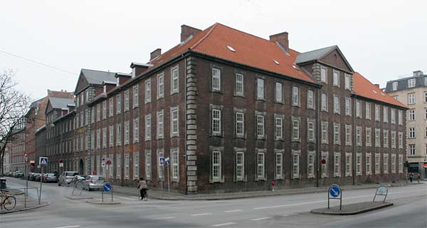 The old nursing home Vartov in Copenhagen, Denmark. These buildings date back to 1722 but were modified in 1860. Photo by Henrik Jessen